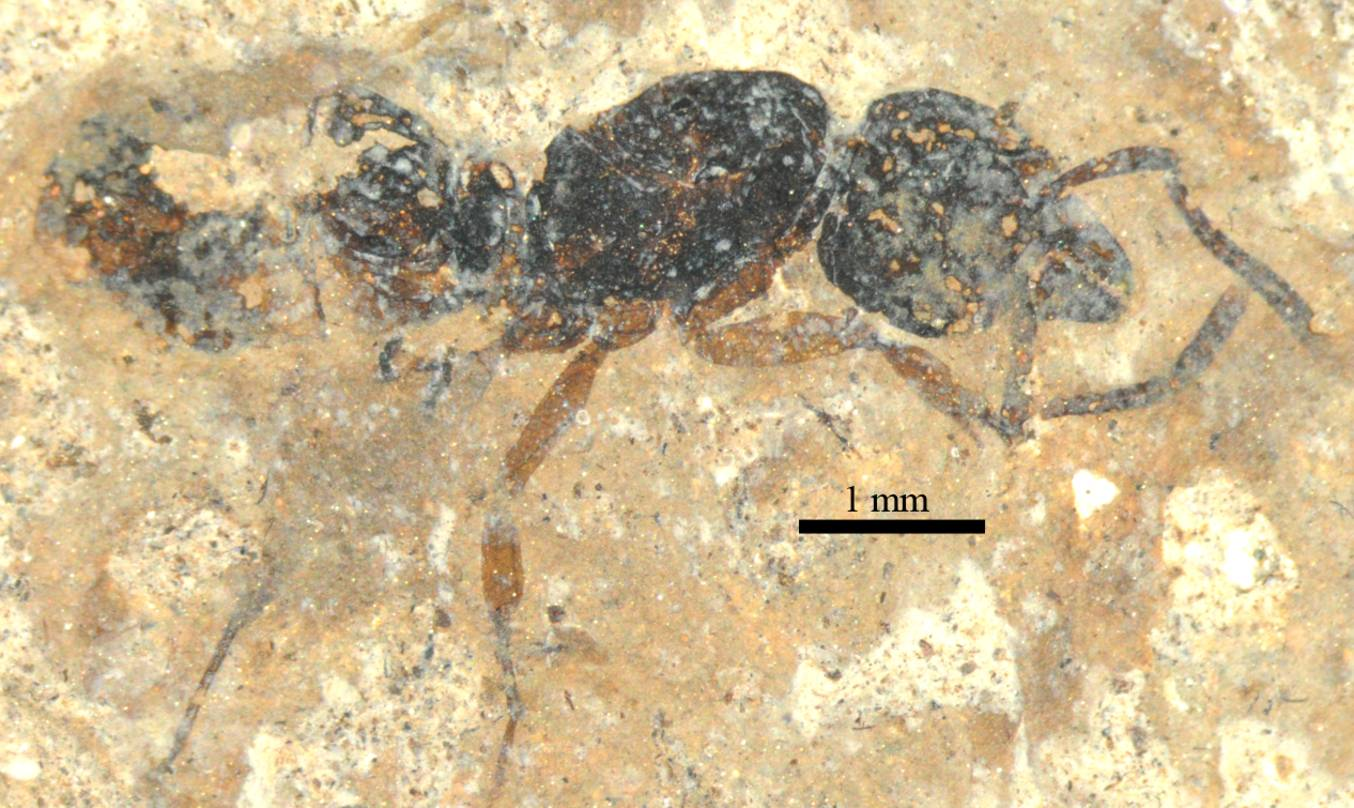 Pachycondyla parvula (syn P. minuta Dlussky & Wedmann, 2012) holotype gyne fossil. Lateral view. Specimen SMFMEI10638